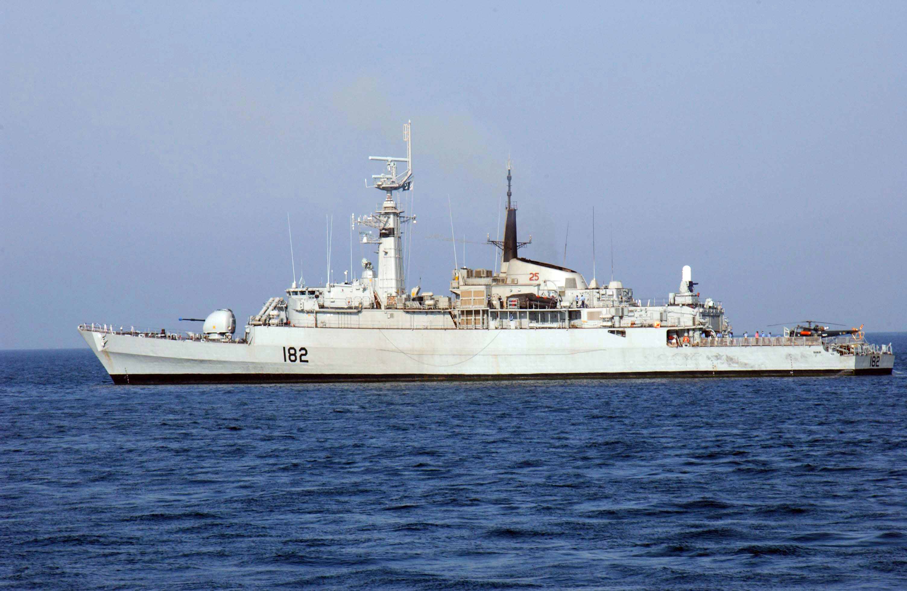 Persian Gulf (Nov. 21, 2004) – The Pakistan Navy destroyer PNS Babur (D 182) operates in the Persian Gulf as part of the Coalition Maritime Campaign Plan conducted under Commander Task Force One Five Zero (CTF-150) in the 5th Fleet area of responsibility. Babur is designed to provide effective defense of a convoy or other force against attack by surface ships or submarines. Coalition forces are working to prevent attacks against critical maritime infrastructures in the region, including the oil and shipping industries, and stopping the flow of terrorist and terrorism related materials. U.S. Navy photo by Journalist 2nd Class Elton Shaw (RELEASED)